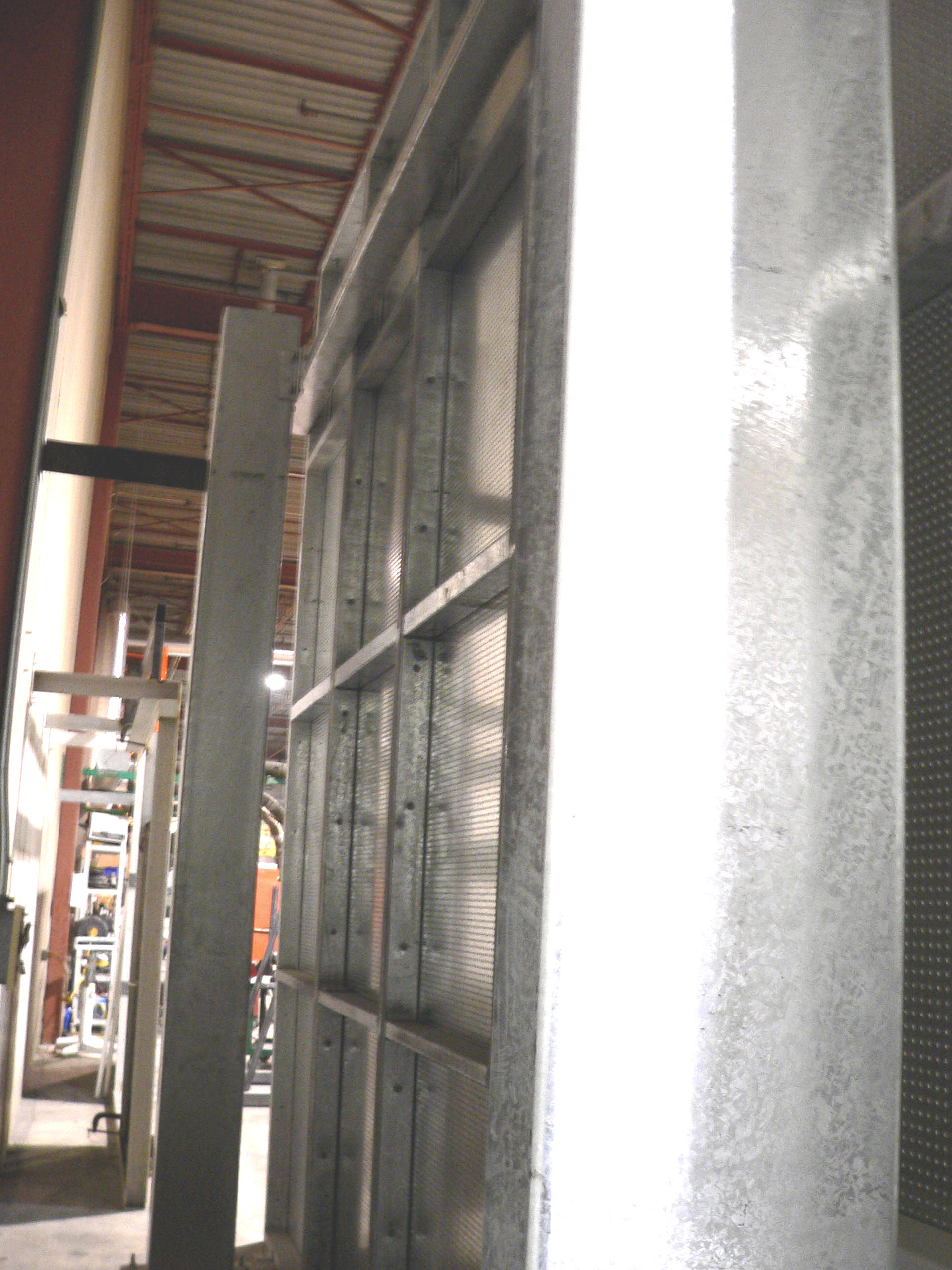 "DuraBarrier" recently subject to a Ripoff report. fire separation made of Durasteel composite board.